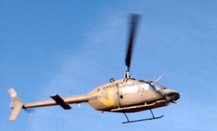 Bell-206 of the Israeli Air Force. Golani Brigade commandos drill in the north of Israel. The soldiers practiced storming an area, and operating under bio-chemical attacks. The drill also included cooperation with the Israeli Air Force as the soldiers had to protect a helicopter that was to land in an open field.